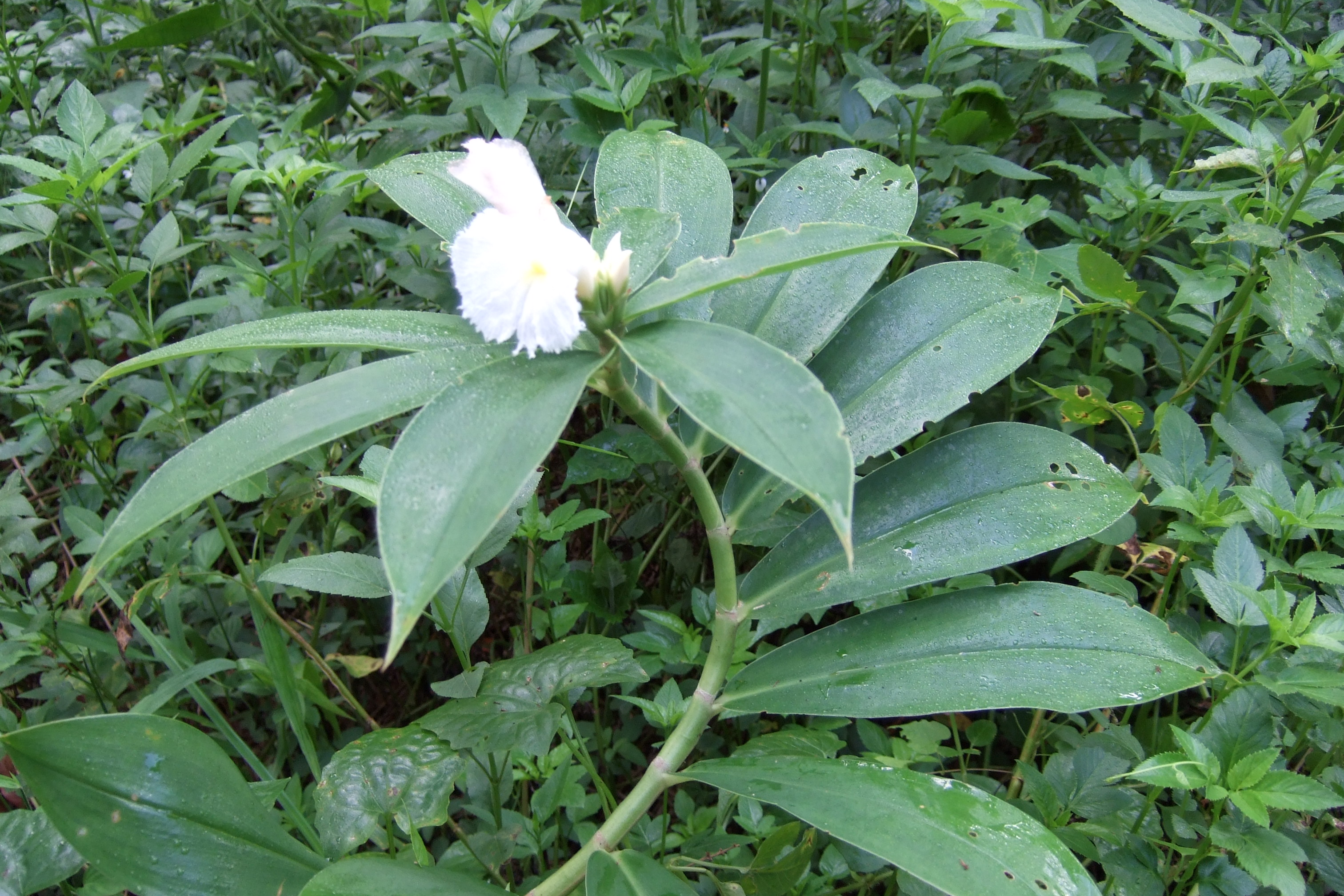 Cheilocostus speciosus, photo taken in Taiwan